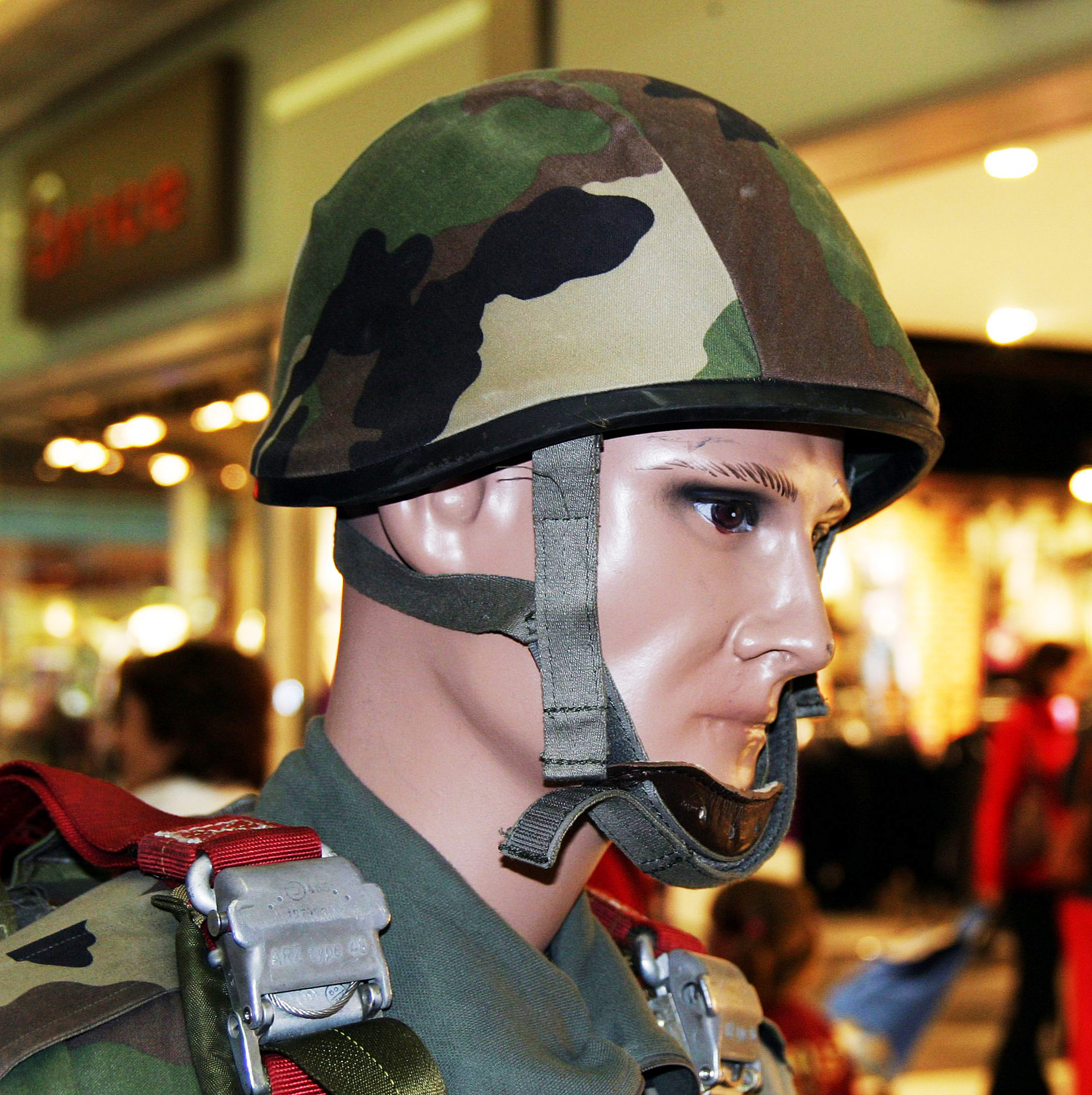 F1 helmet of the paratroopers of the Troupes de Marine of the French Army